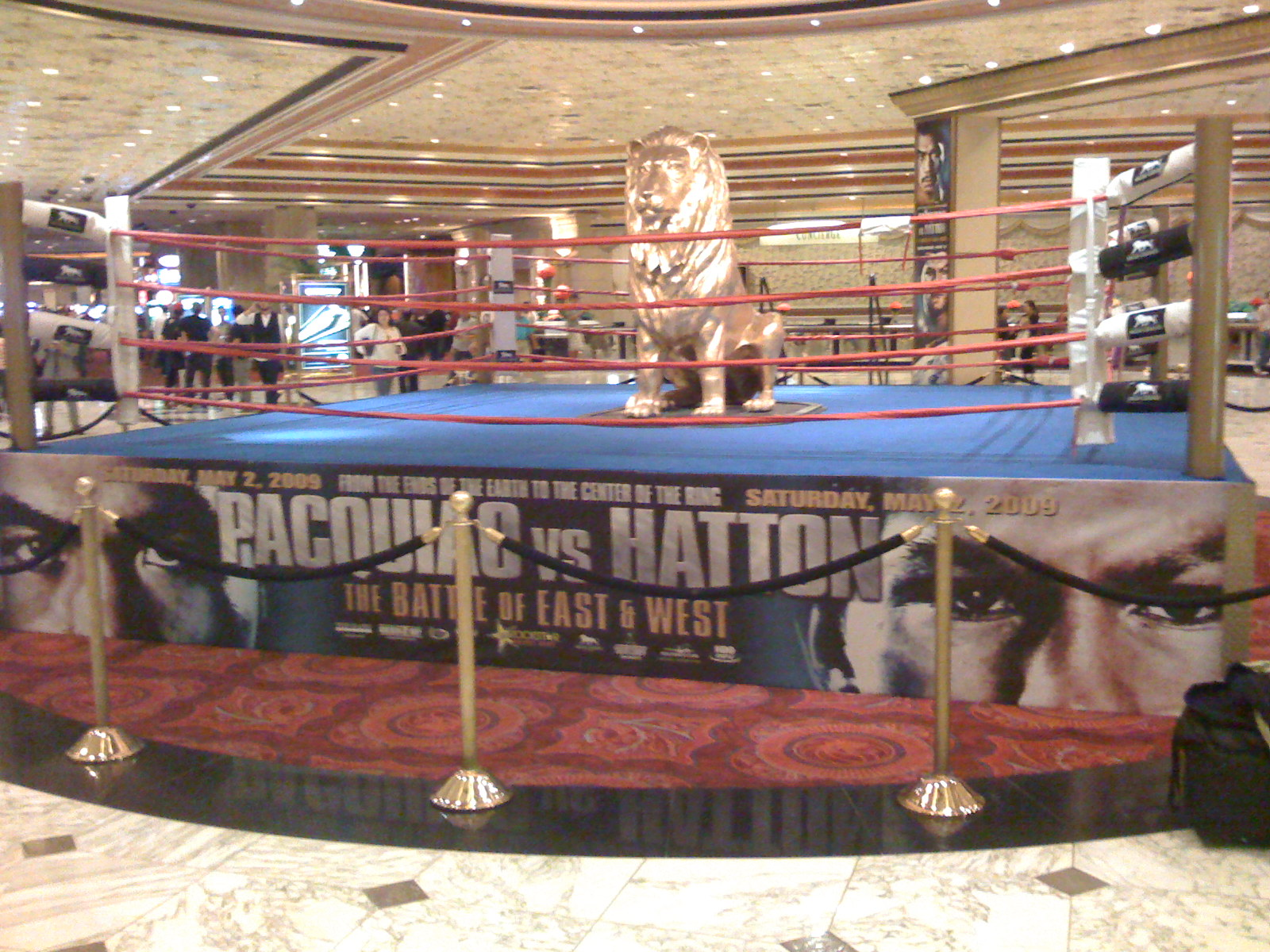 Ricky Hatton vs. Manny Pacquiao pre-fight buildup in the foyer of the MGM.